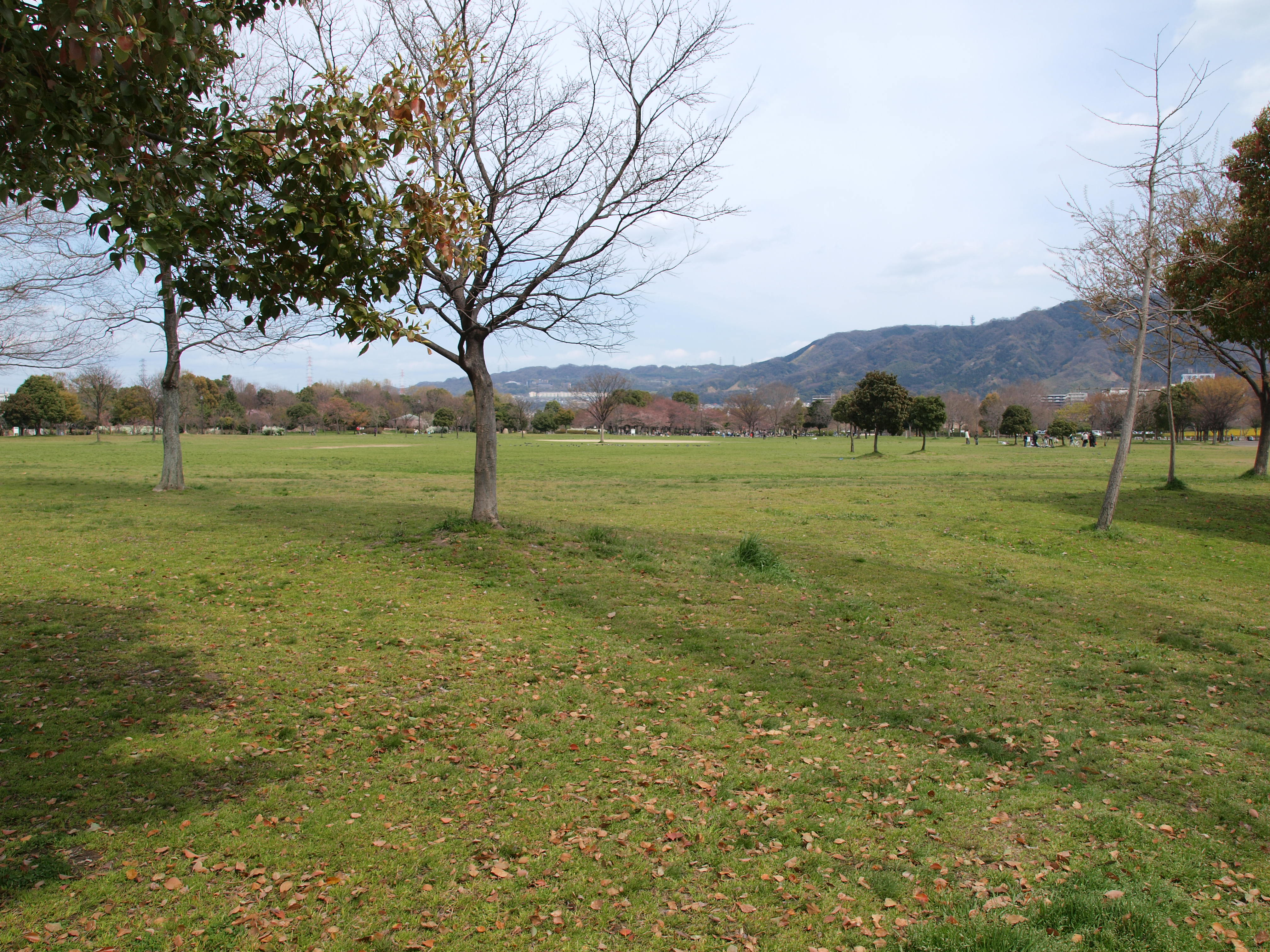 Osaka Prefectural Fukakita Ryokuchi Park